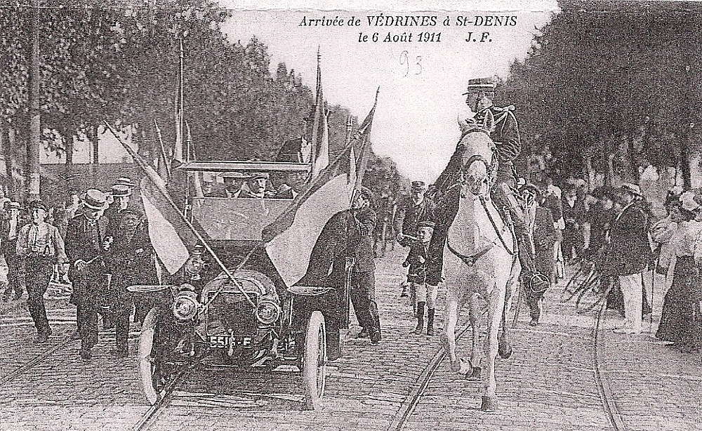 VEDRINES Jules2